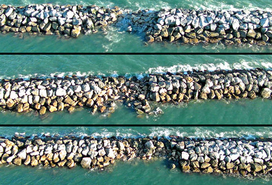 Three breaches along the Middle breakwater off the coast of Long Beach California following several days of heavy surf from Hurricane Marie in late-August 2014